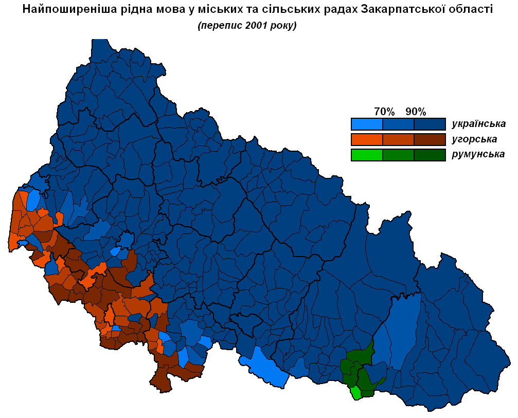 Native languages of Zakarpattya oblast according to 2001 census